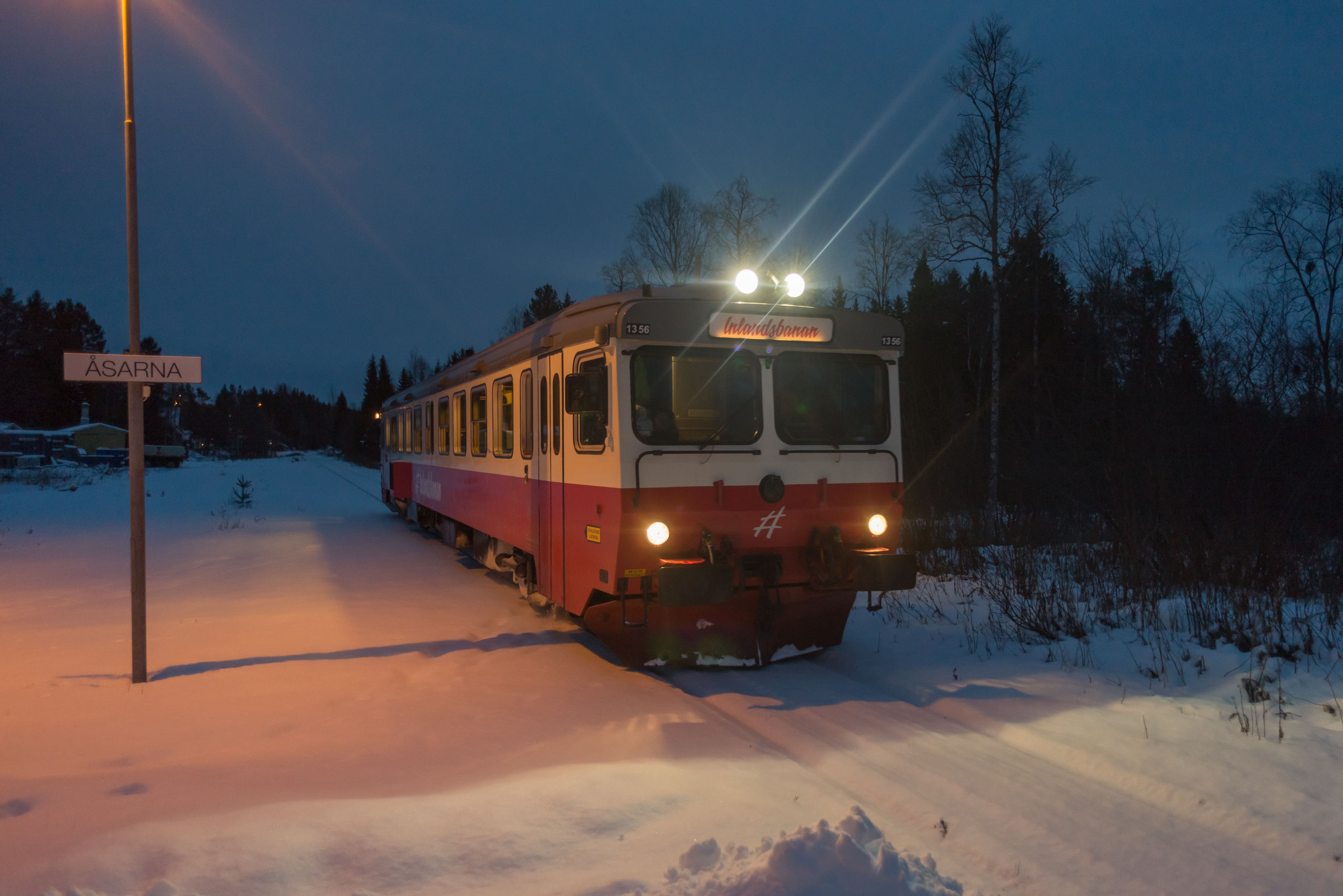 Y1-train from Inlandsbanan at Åsarna station.